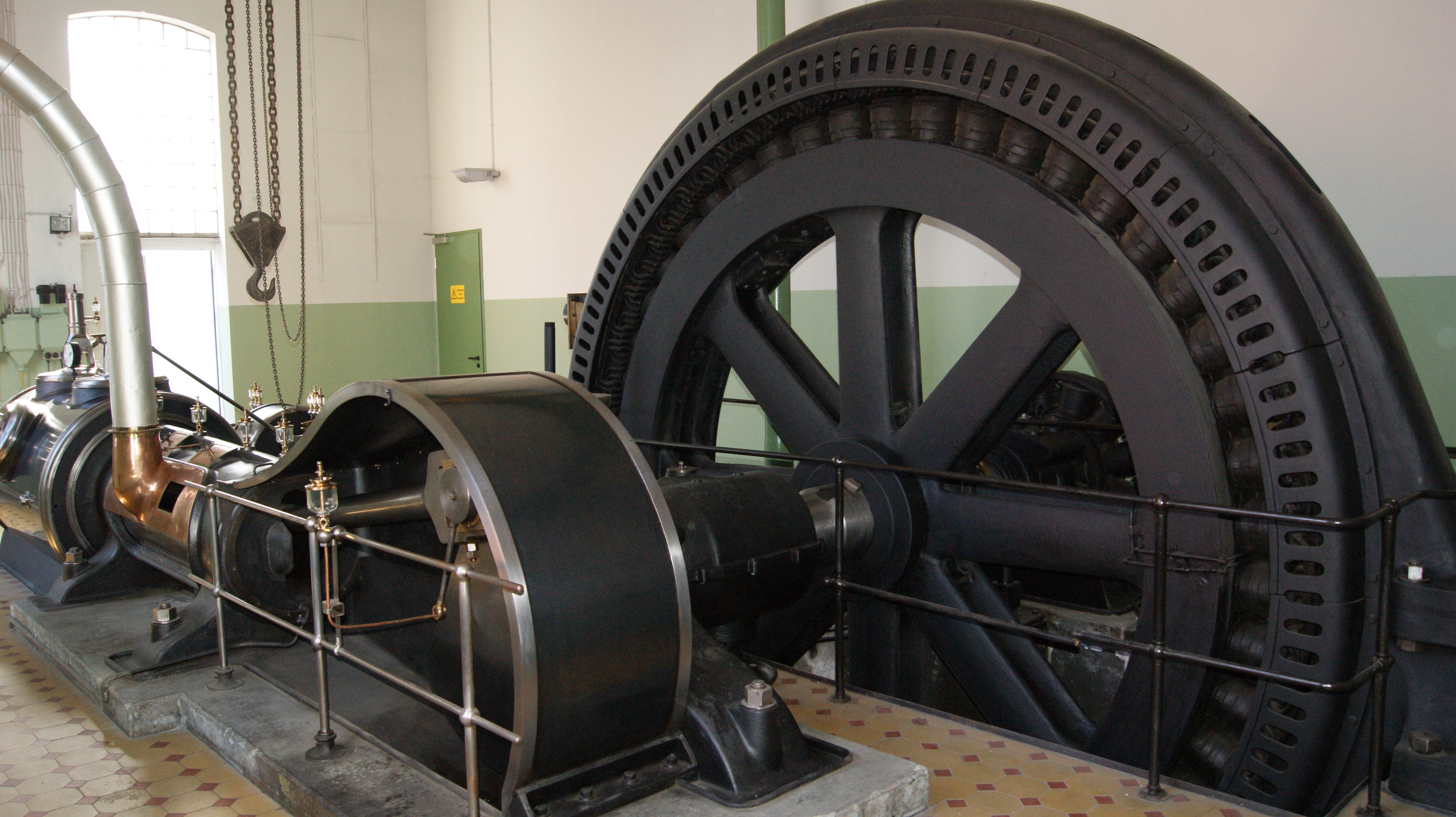 Steam engine - generator (power heat coupling) from Ernst Brünner and AEG in the former factory F.M. Rhomberg in Dornbirn in 1912.